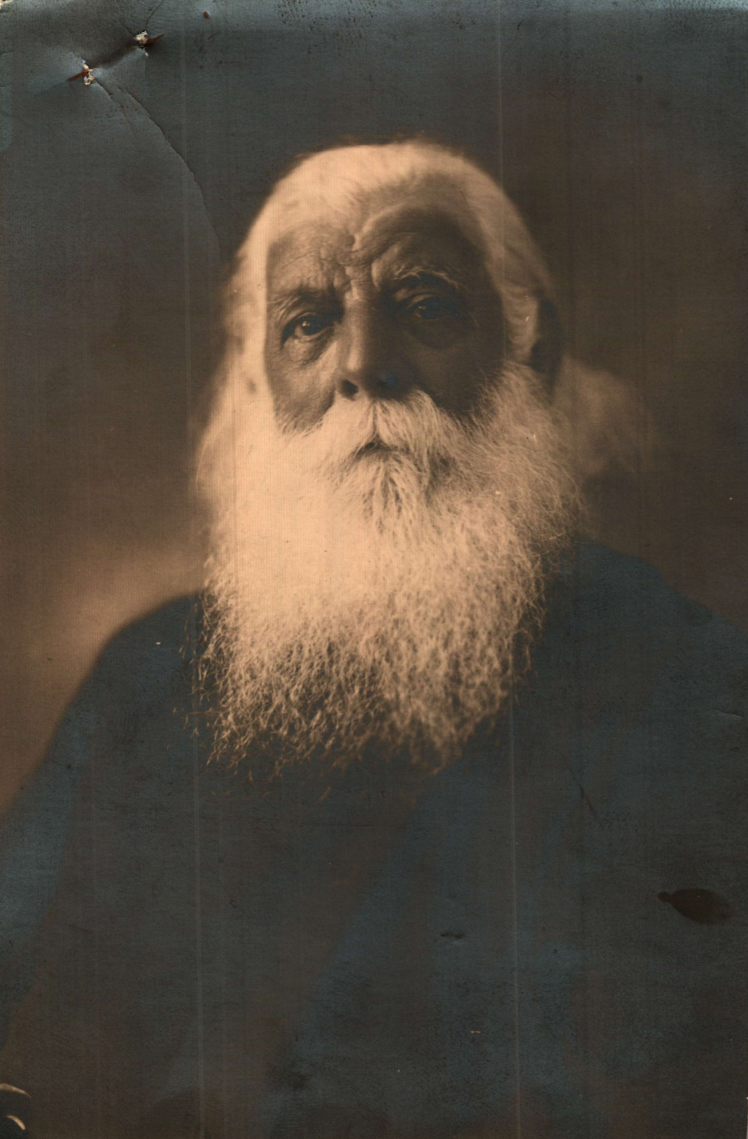 Bulgarian ethnographer Dimitar Marinov (1846-1940).